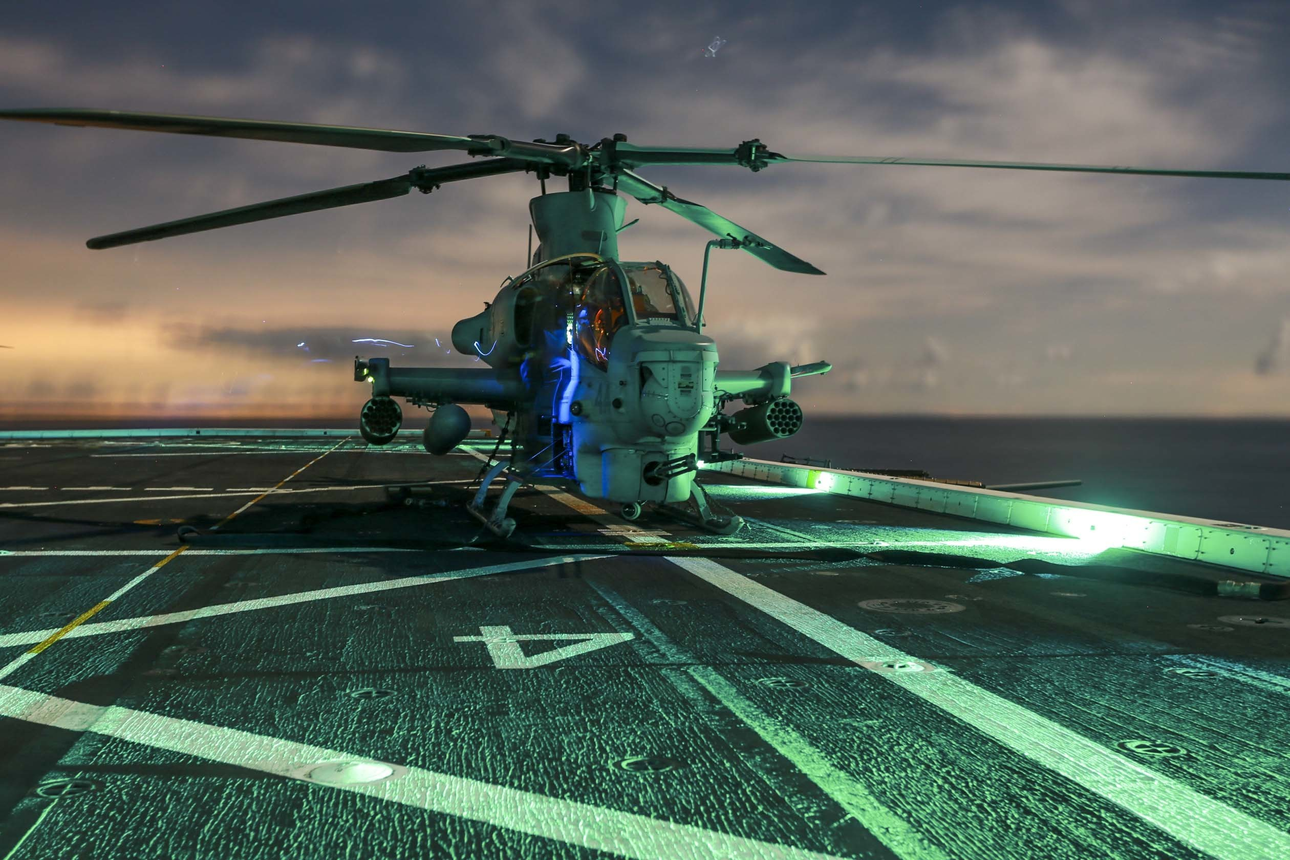 U.S. Marines perform maintenance checks on an AH-1Z Viper with Marine Medium Tiltrotor Squadron 161 (Reinforced), 15th Marine Expeditionary Unit, aboard the USS Anchorage (LPD 23) during Amphibious Squadron/Marine Expeditionary Unit Integration Training (PMINT) off the coast of San Diego March 2, 2015. The pilots of VMM-161 (Rein) were practicing take-offs and landings at night to maintain proficiency aboard ship. (U.S. Marine Corps photo by Sgt. Jamean Berry/Released)